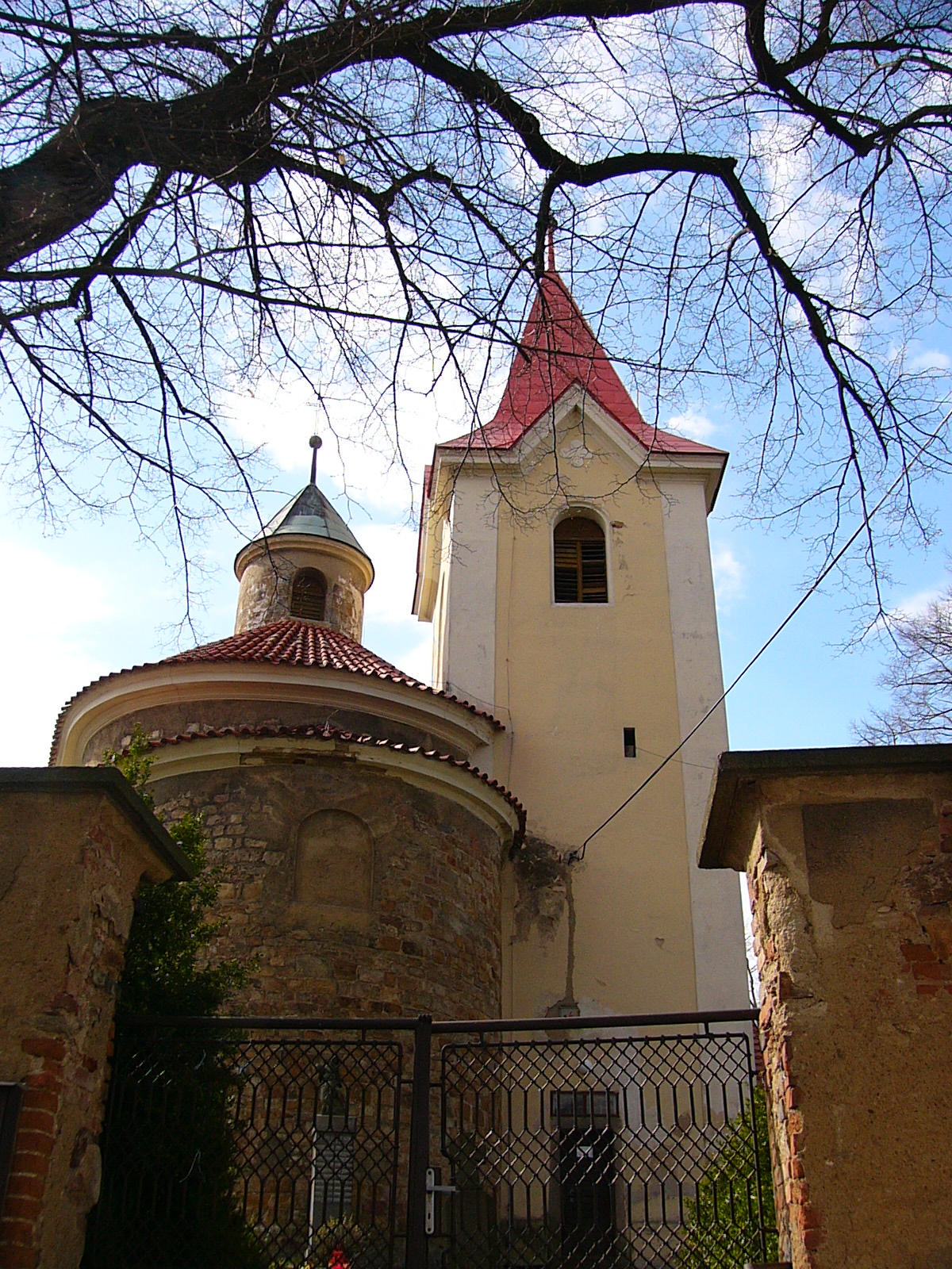 Church and rotunda of St. Martin in Kostelec u Křížků.